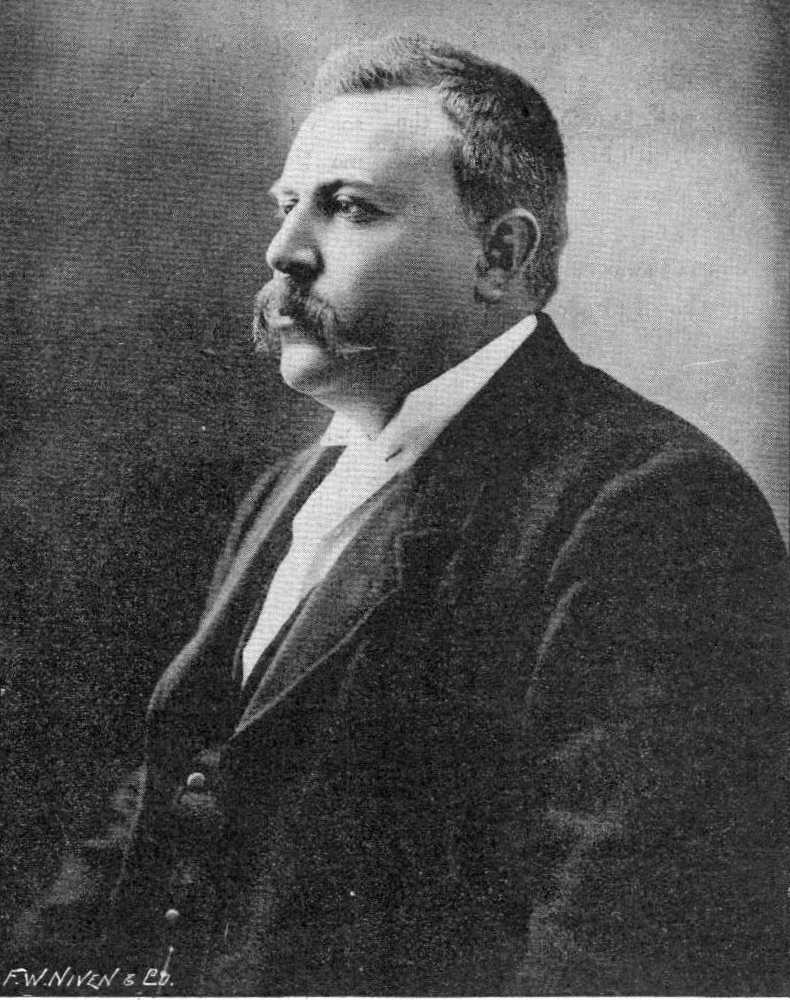 Scan from original